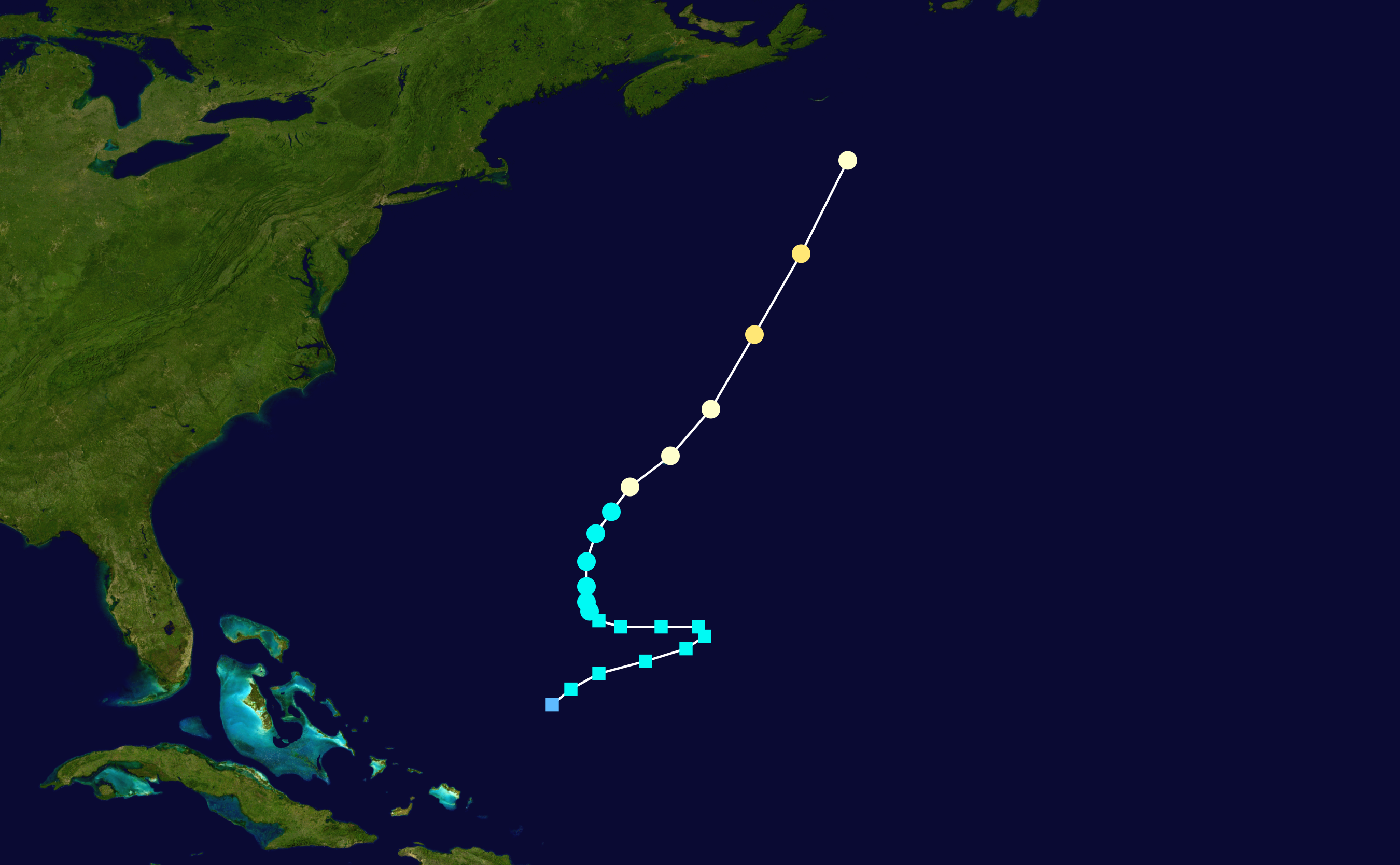 1970 Atlantic hurricane 9 track. Uses the color scheme from the Saffir-Simpson Hurricane Scale.